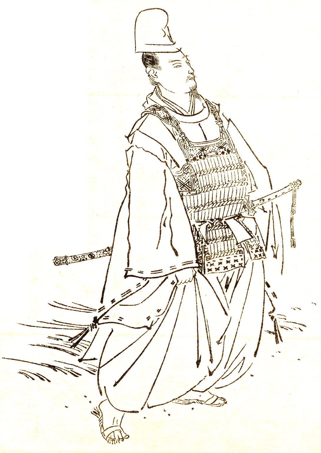 Fujihara Morokata（藤原師賢） was a court noble and politician of Japan in the latter period of Kamakura era.This picture was drawn by Kikuchi Yosai（菊池容斎） who was a painter in Japan.